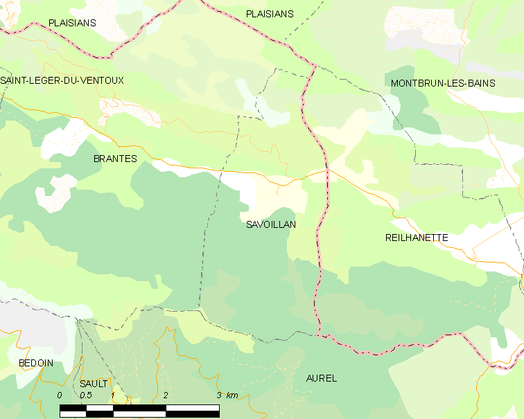 Map of French municipality Savoillan